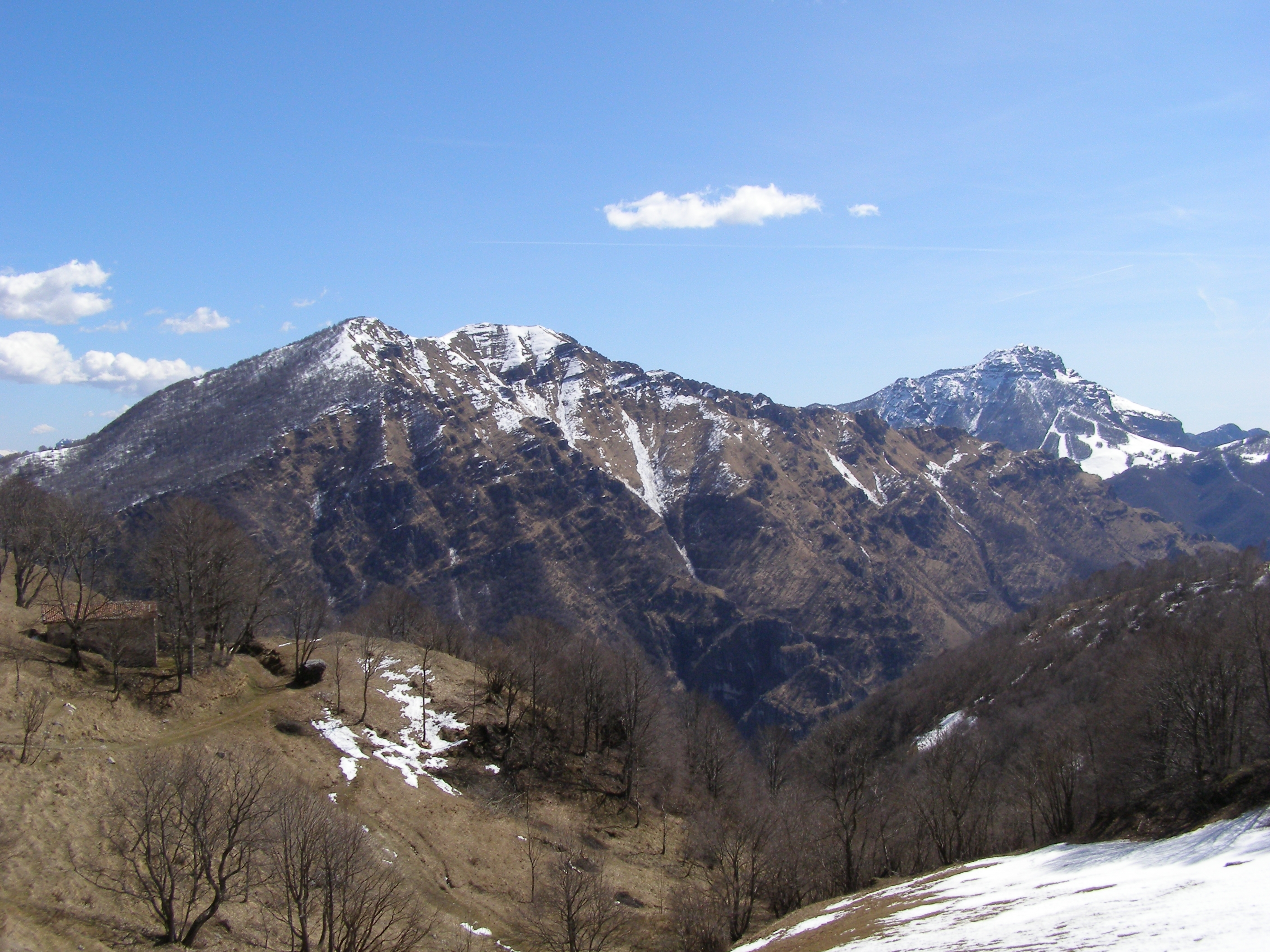 Due Mani and Resegone peaks